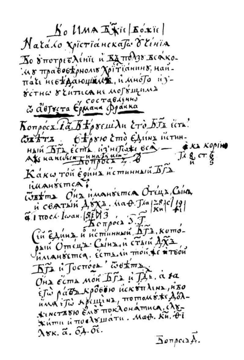 Simon Todorsky's autograph.